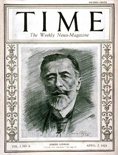 TIME Magazine cover featuring Joseph Conrad (7 Apr 1923)